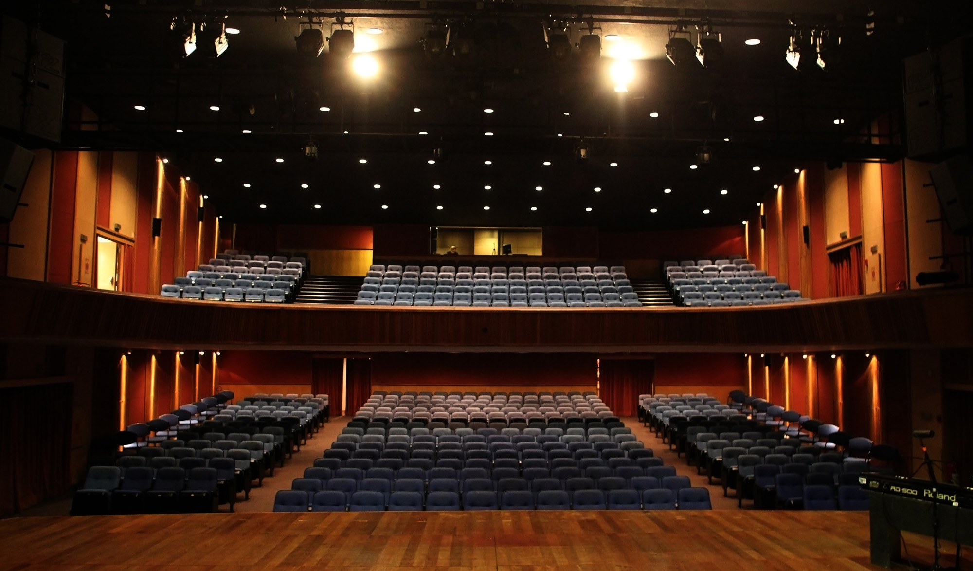 Teatro Sesc Ginástico, no Centro do Rio